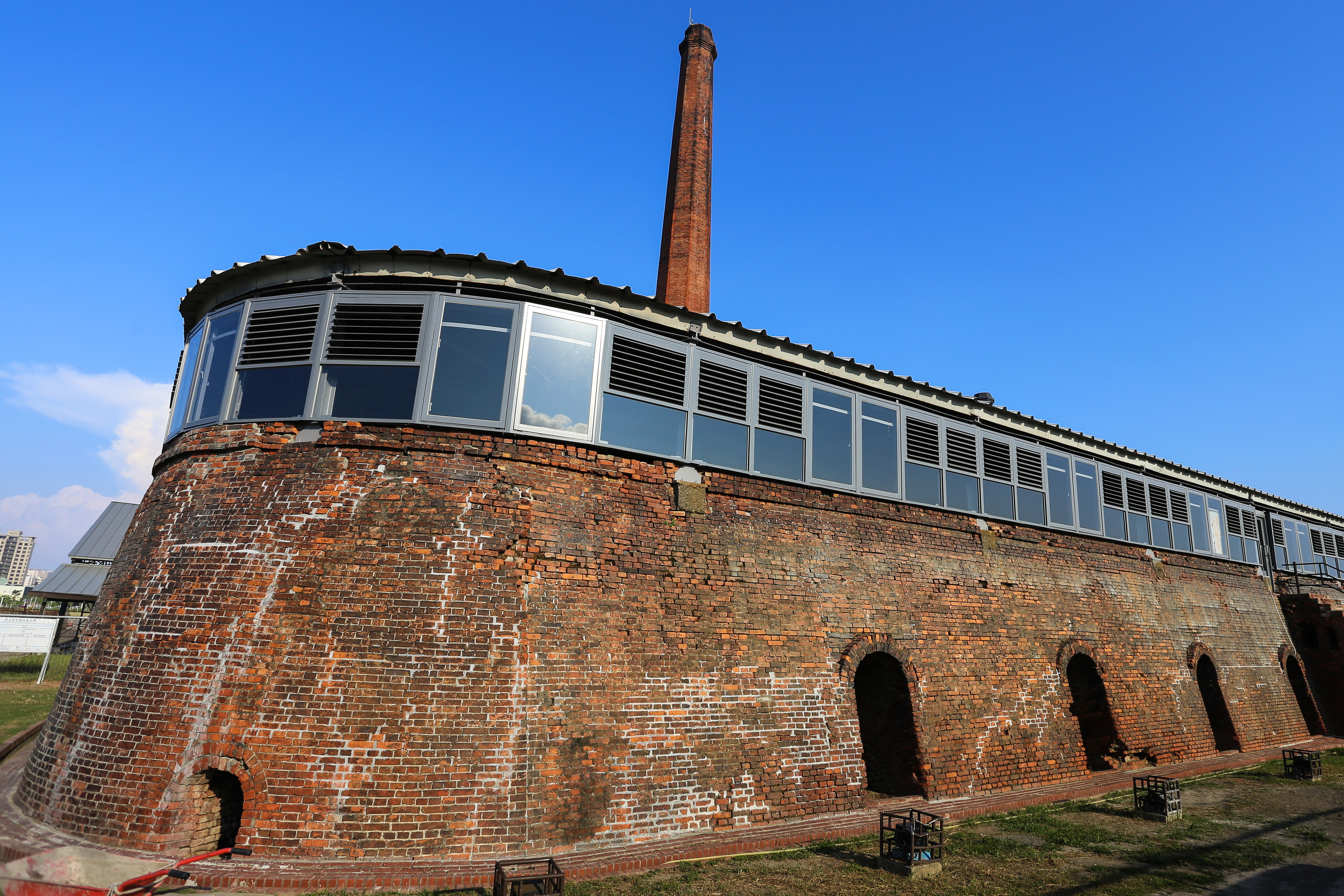 The north side of the Former Tangrong Brick Kiln, Sanmin District, Kaohsiung City, Taiwan.